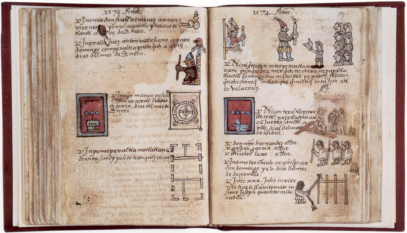 Part of the Aubin Codex.